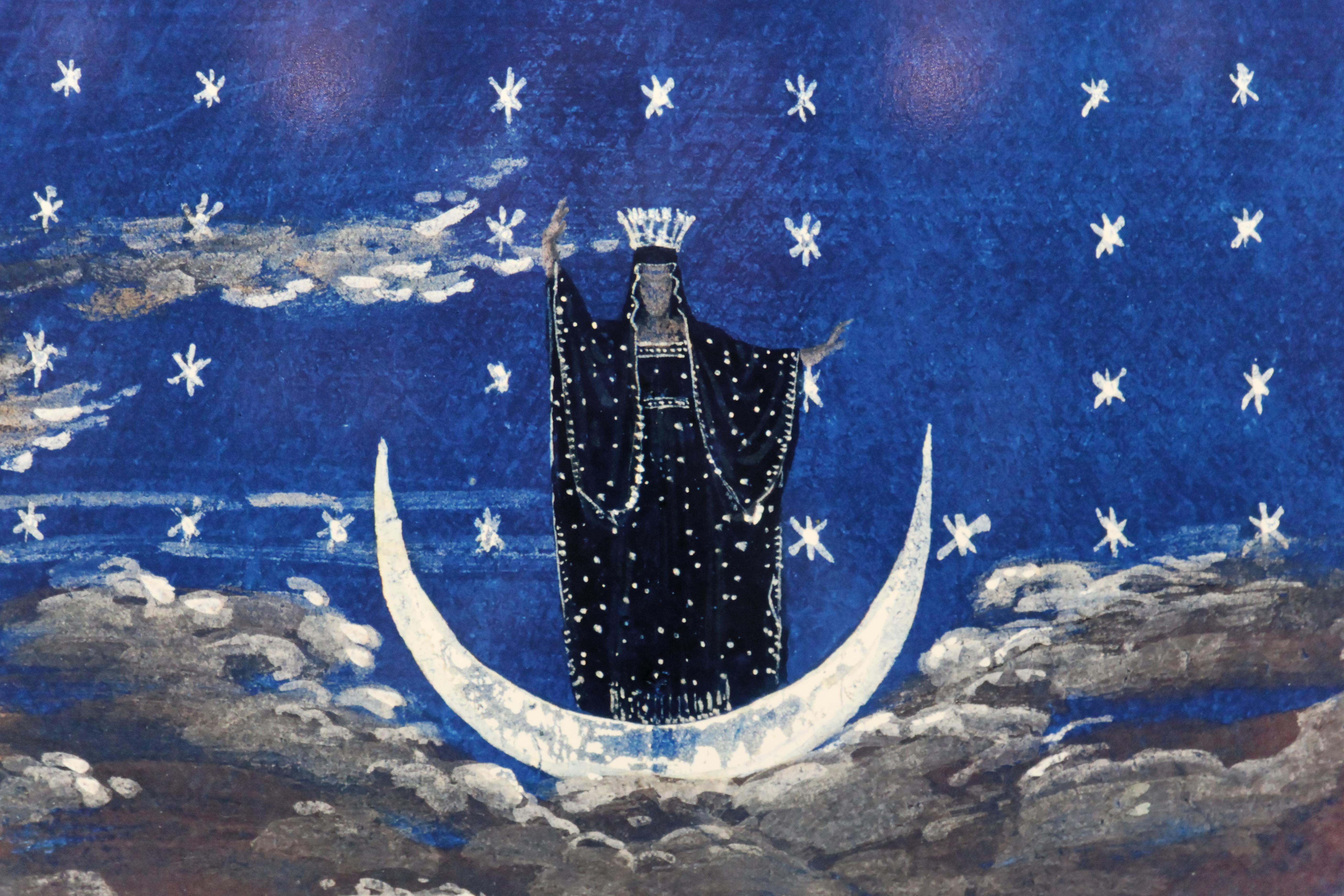 Die Sternenhalle der Königin der Nacht by Karl Friedrich Schinkel, "Der schöne Schein" exhibition of replicas of well-known artwork in the Gasometer in Oberhausen